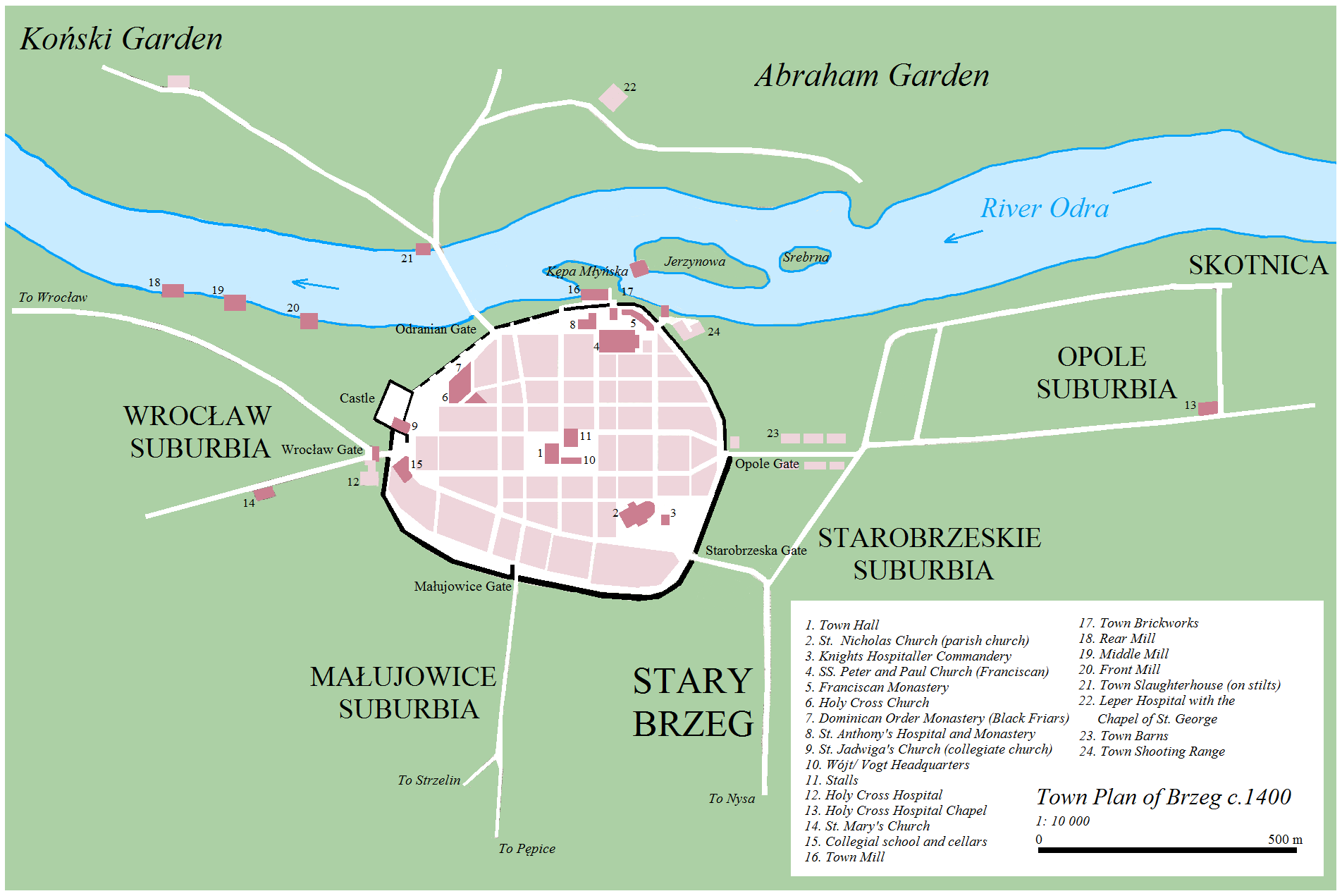 Digital representation of the Brzeg town plan from c. 1400, as featured in the Instytut Śląski w Opolu book on Brzeg (1975).